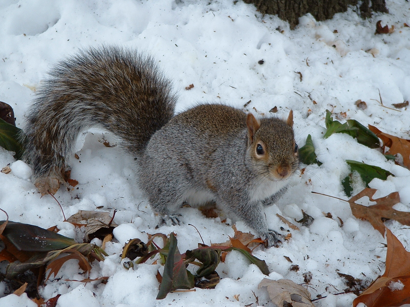 Eastern Gray Squirrel (Sciurus carolinensis) on snow–covered ground with leaves and twigs. Taken at Penn State University, University Park, PA near the HUB.